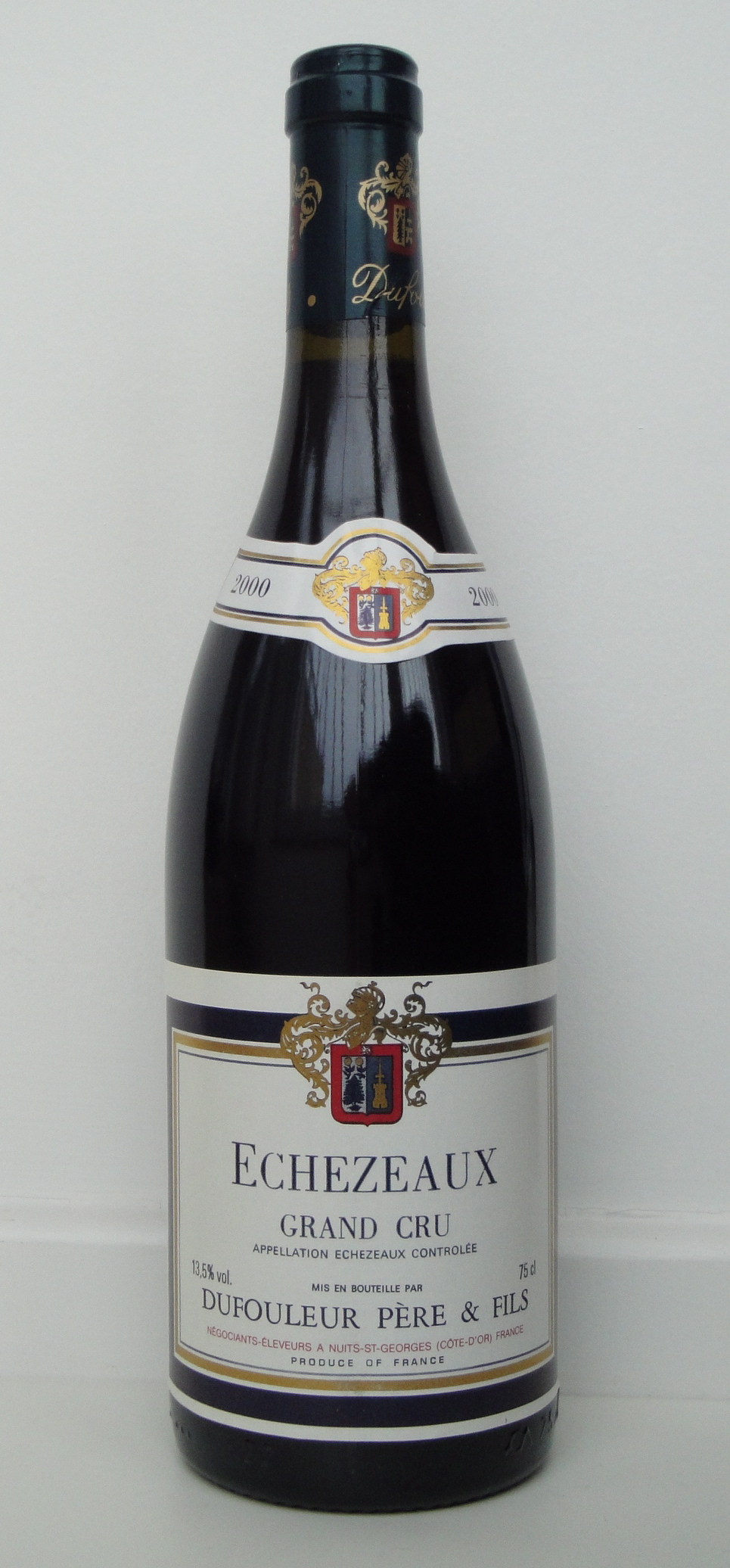 A bottle of Echezeaux 2000 from Dufouleur Père & Fils